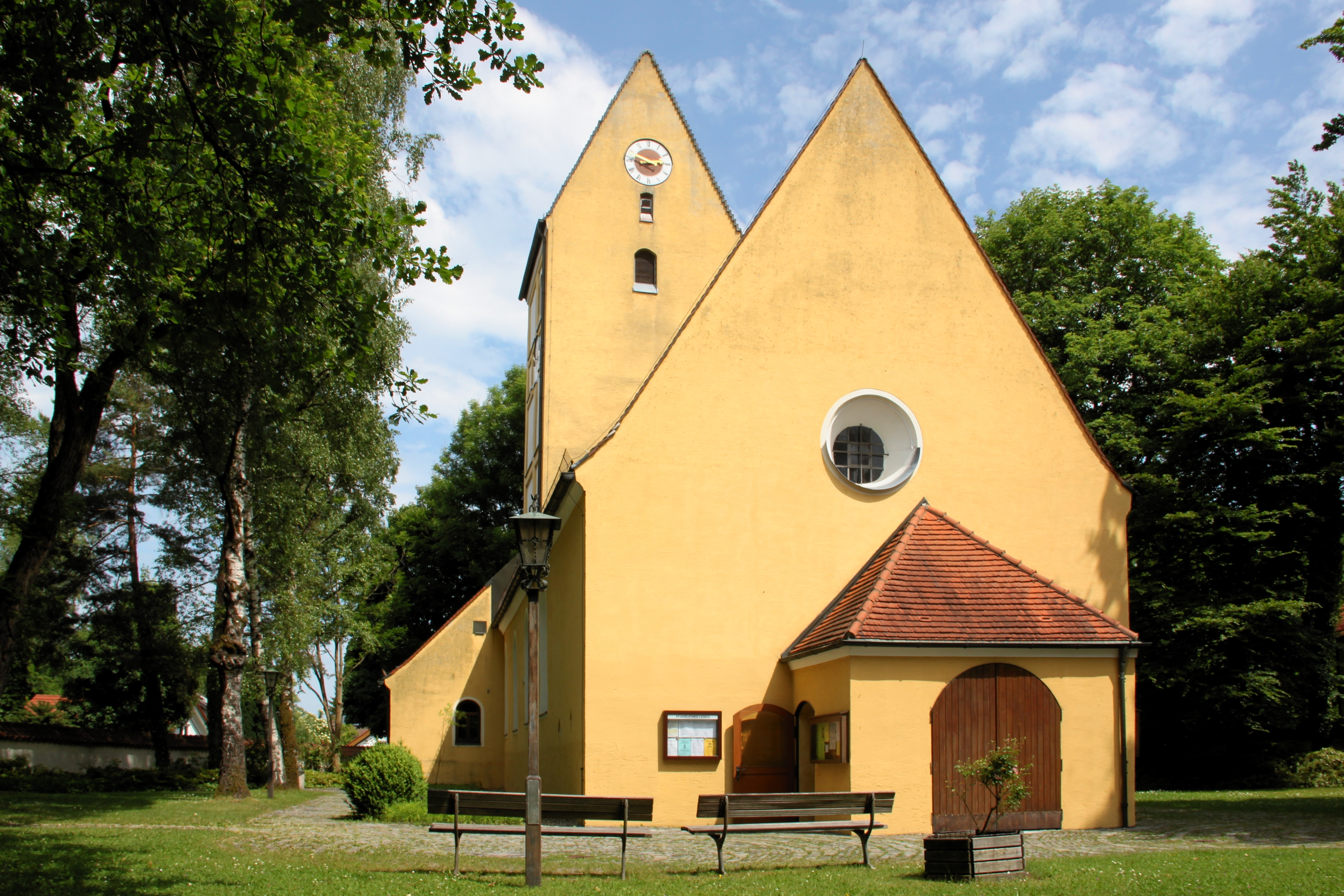 Unterhaching: Saint Korbinian Church